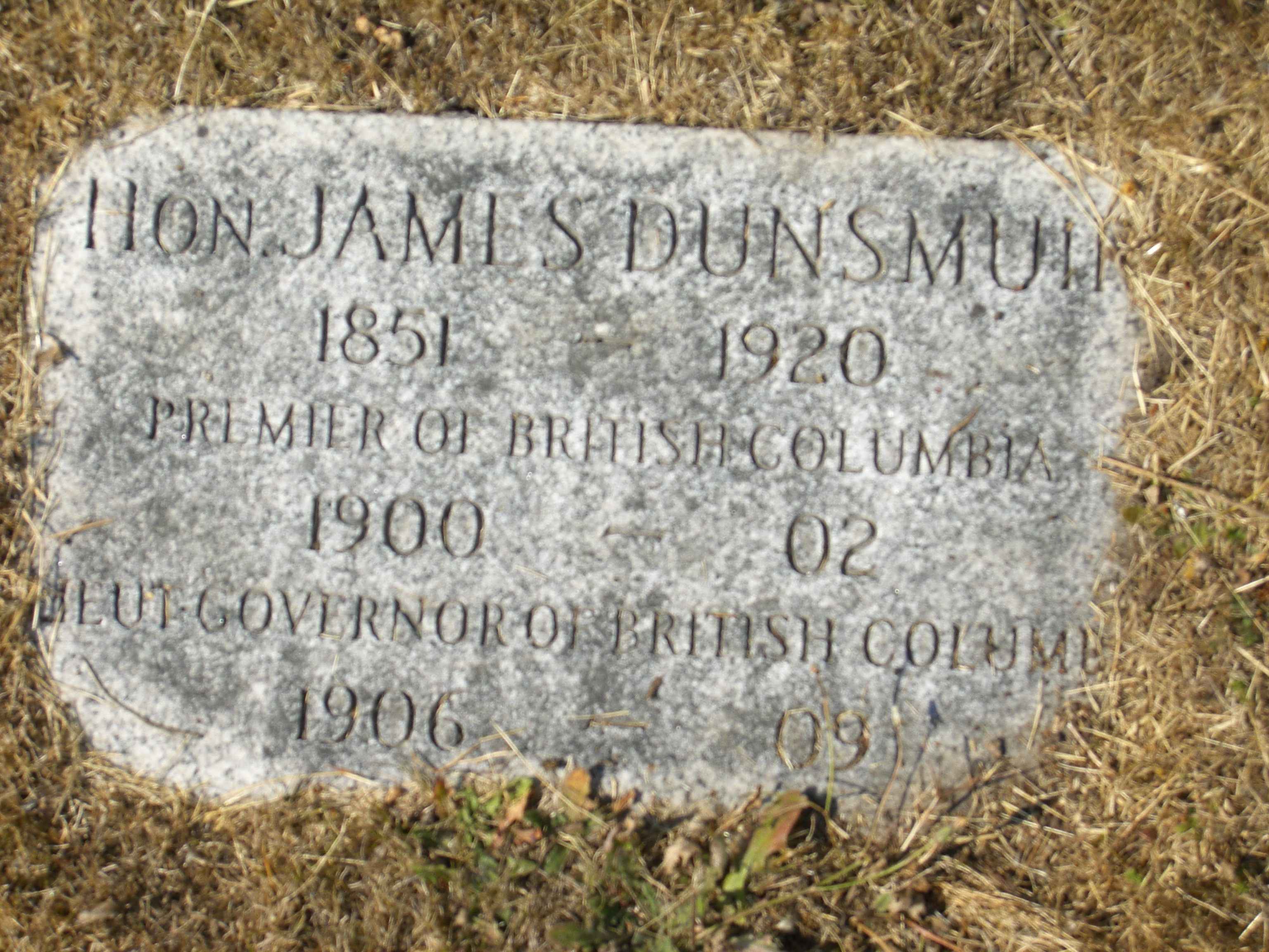 Grave monument of James Dunsmuir at Ross Bay Cemetery, Victoria BC.